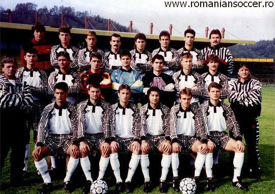 Jiul Petroșani squad 1995-1996 Divizia B season.